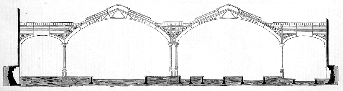 Trainshed cross section Liverpool Street station (as built c.1875) From The Engineer 11 June 1875, volume 39